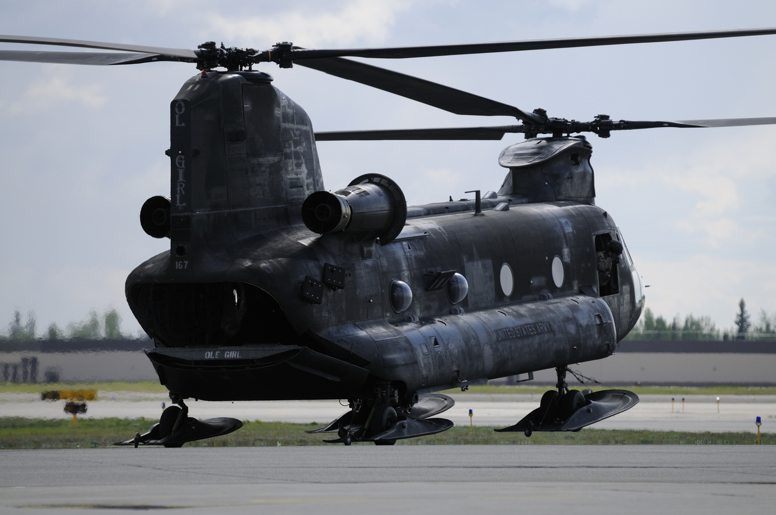 This U.S. Army CH-47 Chinook helicopter, assigned to B Company, 1st Battalion, 52nd Aviation Regiment, lands at Fort Wainwright's Hangar 1 while carrying a load of Junior ROTC cadets for a half-hour ride.